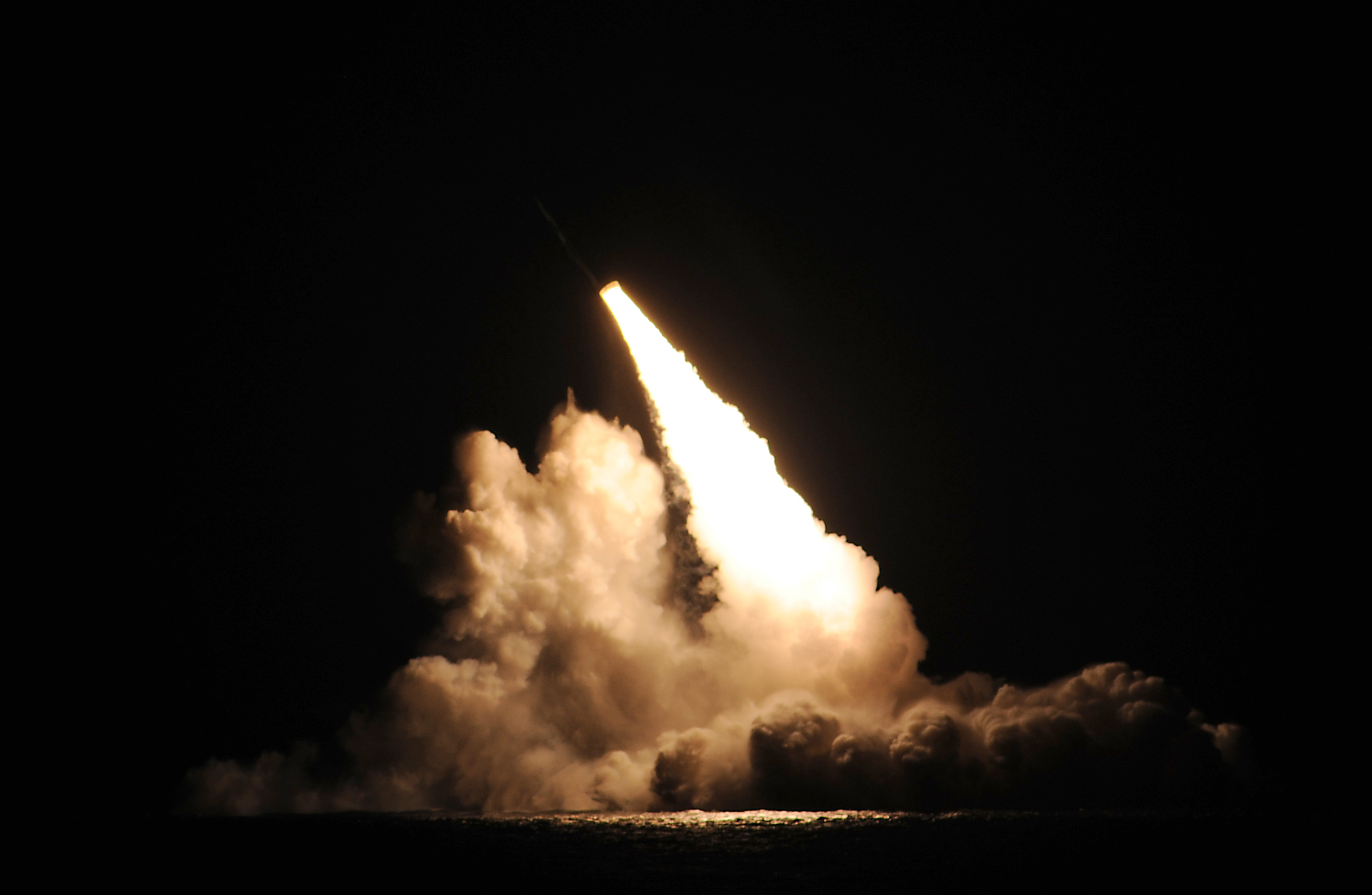 151107-N-ZZ999-001 PACIFIC OCEAN (Nov. 7, 2015) A trident II D-5 ballistic missile is launched from the Ohio-class ballistic missile submarine USS Kentucky (SSBN 737) during a missile test at the Pacific Test Range. The launch, the 156th successful test flight of an unarmed Trident II D5 missile, was part of a Demonstration and Shakedown Operation (DASO) in the Pacific Test Range to validate the readiness and effectiveness of an SSBN’s crew and weapon system. (U.S. Navy photo/Released)